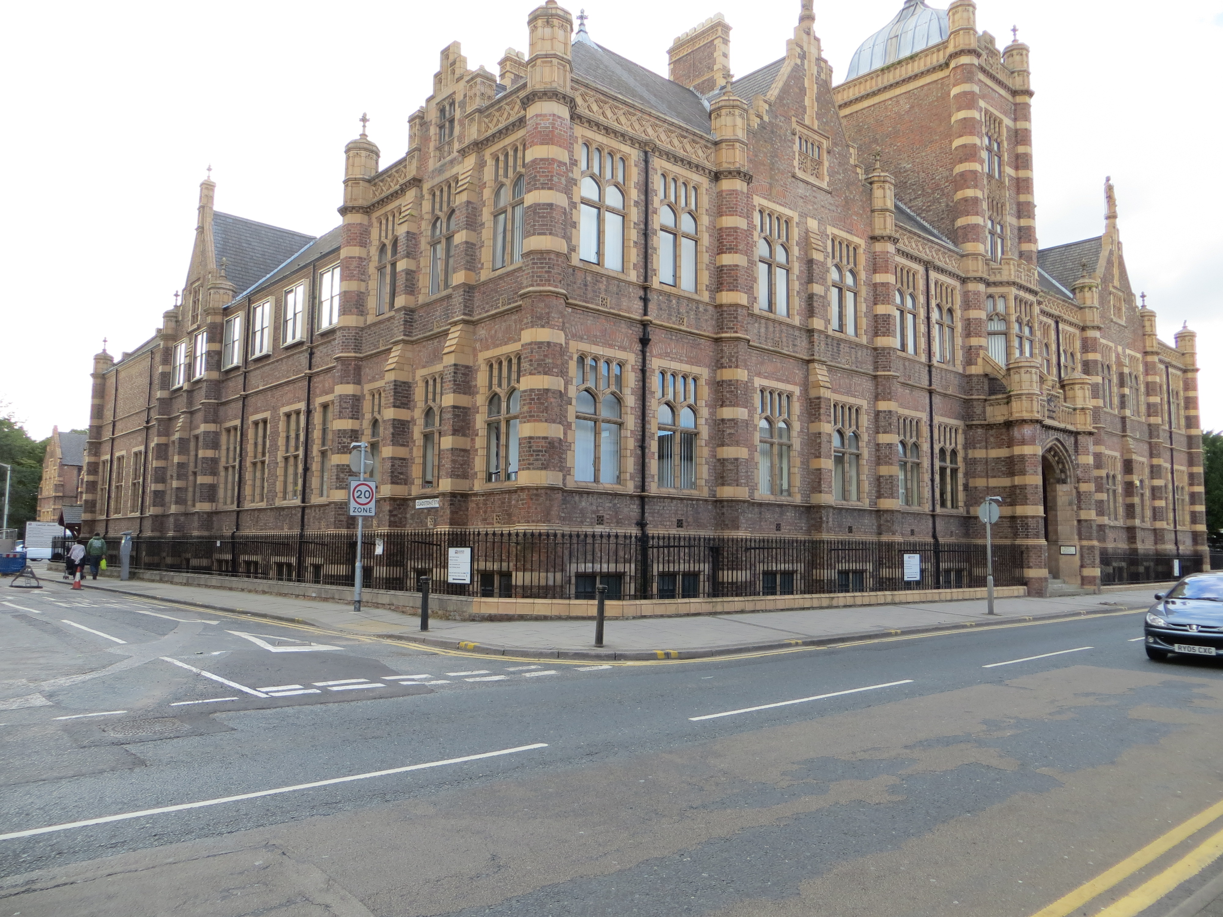 Previous building, in use as council offices in 2014